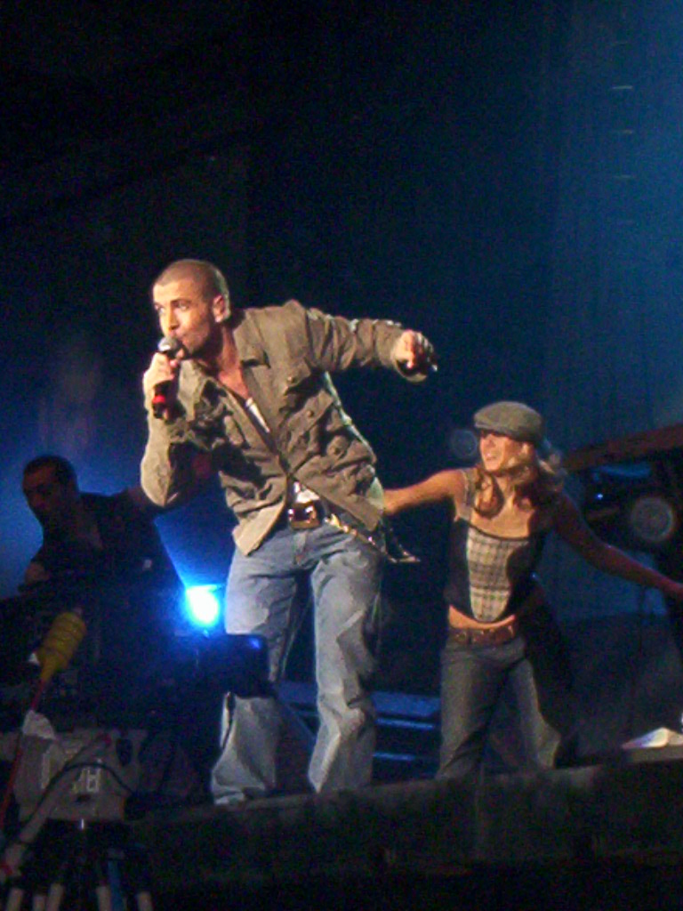 Author: Myself released to public domain